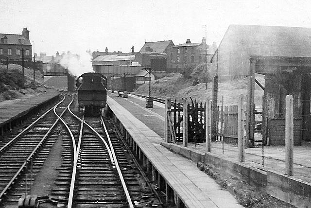 Seacombe Station. View westwards, towards Seacombe Junction, Bidston and Wrexham; terminus of ex-Great Central line from Bidston and Wrexham. The station was closed 4/1/60 and since then the service has run southwards from Bidston. The locomotive in view is a LMS Ivatt 2MT 2-6-2T that had worked in on a service from Wrexham.